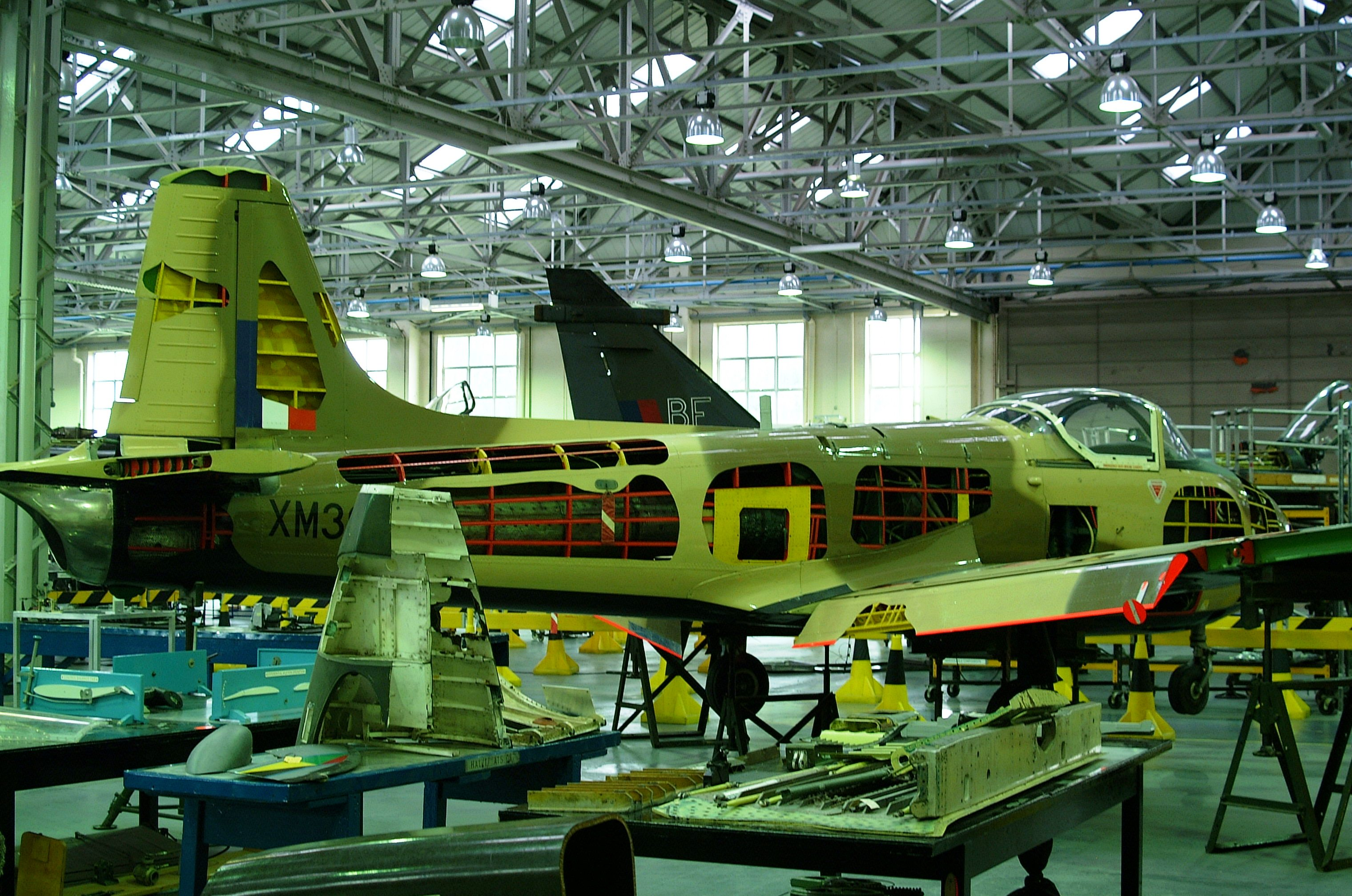 A training aid for the apprentices at RAF Cosford